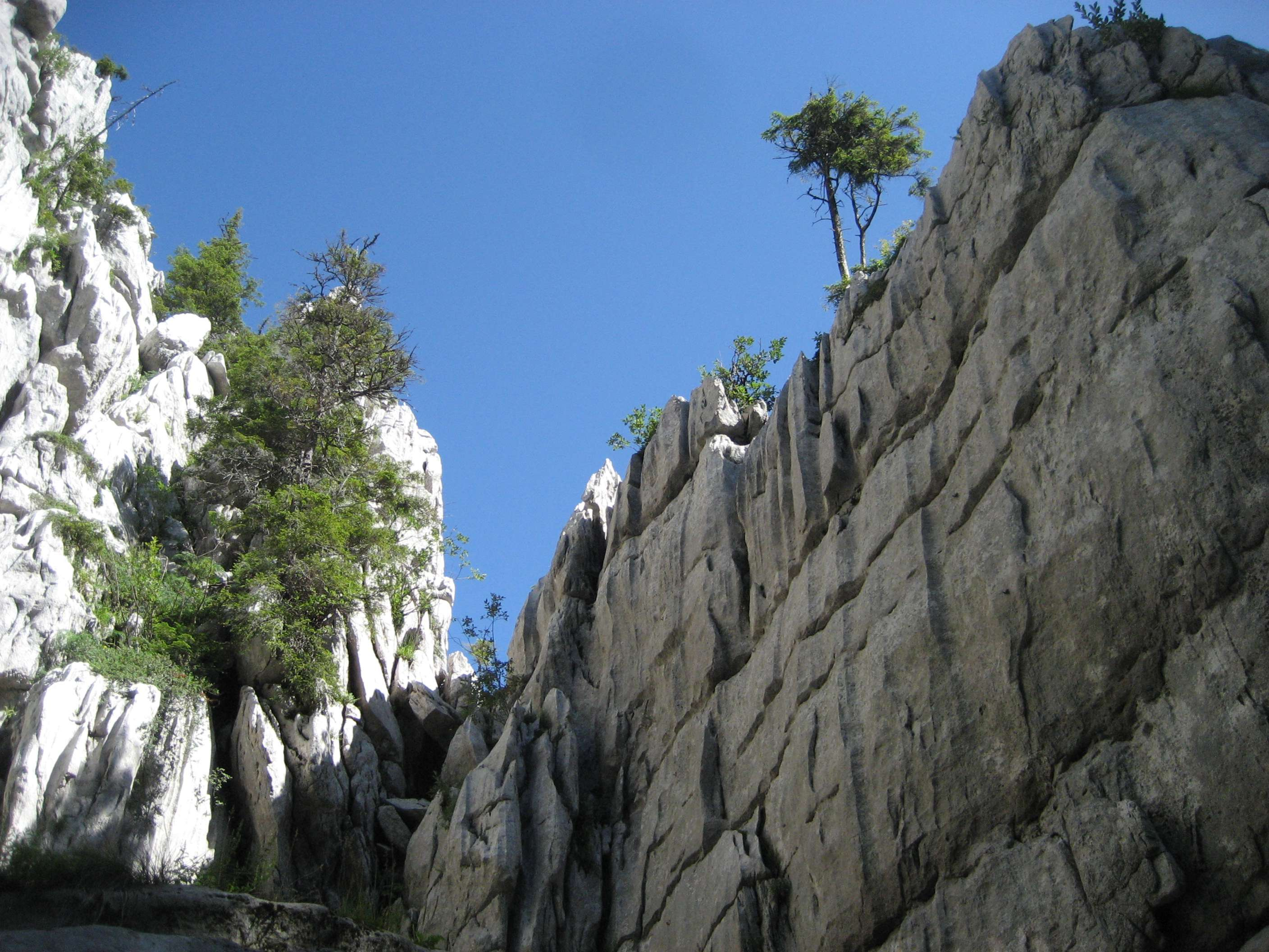 Bijele i samarske stijene